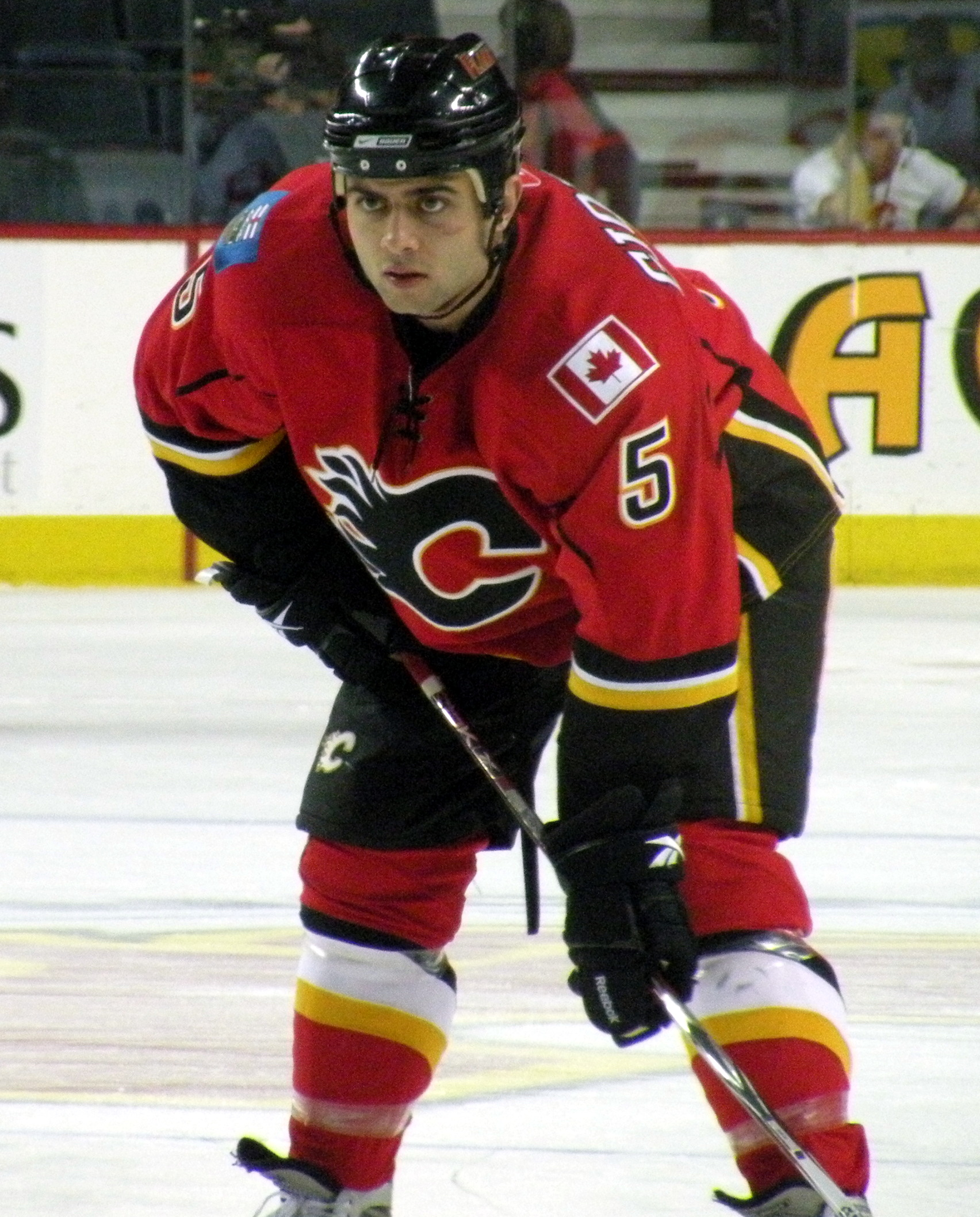 Defenceman Mark Giordano warming up prior to a game between the Calgary Flames and Detroit Red Wings at Calgary, November 22, 2008.